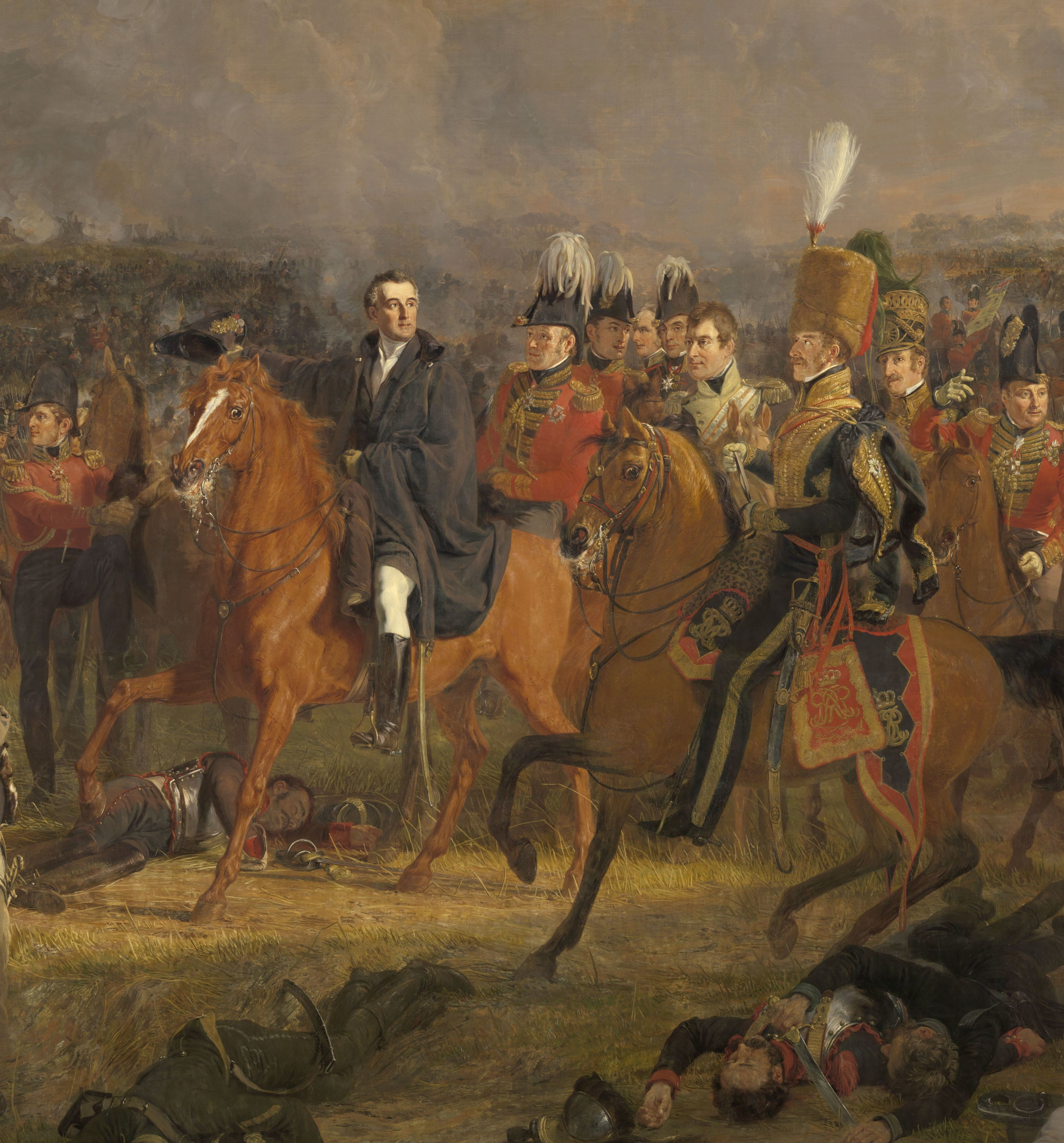 The Battle of Waterloo, 18 June 1815. View of the battle field on the moment that the British commander Wellington receives the message that help from Prussian troops is underway. Bottom left the wounded Prince of Orange is being carried away. The commanders and other officers are depicted in the center on horseback. Bottom right a number of wounded and dead soldiers. In the background the battle is raging. The people portrayed include Lord Uxbridge, Sir Rowland Hill, Staff Colonel Sir William Delancey, Major-General George Cooke, Colonel Harvey, Colonel Campbell, lieutenant-general Don Miguel Ricardo de Álava, lieutenant-colonel F.C. Ponsonby, Major William Thornhill, Jean Victor, baron De Constant de Rebeque, Colonel Sir John Elley, lieutenant-colonel Aberson, General-major A.K.J.G. d'Aubremé, Captain Aberson, Captain H. Roepel, Colonel H. Detmers, Major J.L.D. van der Smissen, Lieutenant-colonel A. van Thielen, Lieutenant-colonel Jhr. W.F. Boreel, Lieutenant-general D.H. Baron Chassé, Colonel Sir G.A. Wood, General Major J.B. Baon van Merlen, Lieutenant-general Ch. von Alten, Major General Sir Colin Halkett, Lieutenant-Colonel William George Harris, Captain C. Nepveu, Fitzroy James Henry Somerset, H.D. Graaf De Cruquenbourg, N.C. Ampt, General-Major Jhr. A.D. Trip, John William Fremantle, General-Major Graaf van Rheede, Major-General Lord Edward Somerset, Charles Gordon Lennox, Lord March, Colonel Dennis Pack, Major P.S.R. van Hooff, Major-general John Ormsby Vandeleur, Major Georg, Freiherr Baring, Colonel C. Von Ompteda, Colonel L.J.H.F. De Caylar and Général de Division Cambronne, Maréchal de Camp.